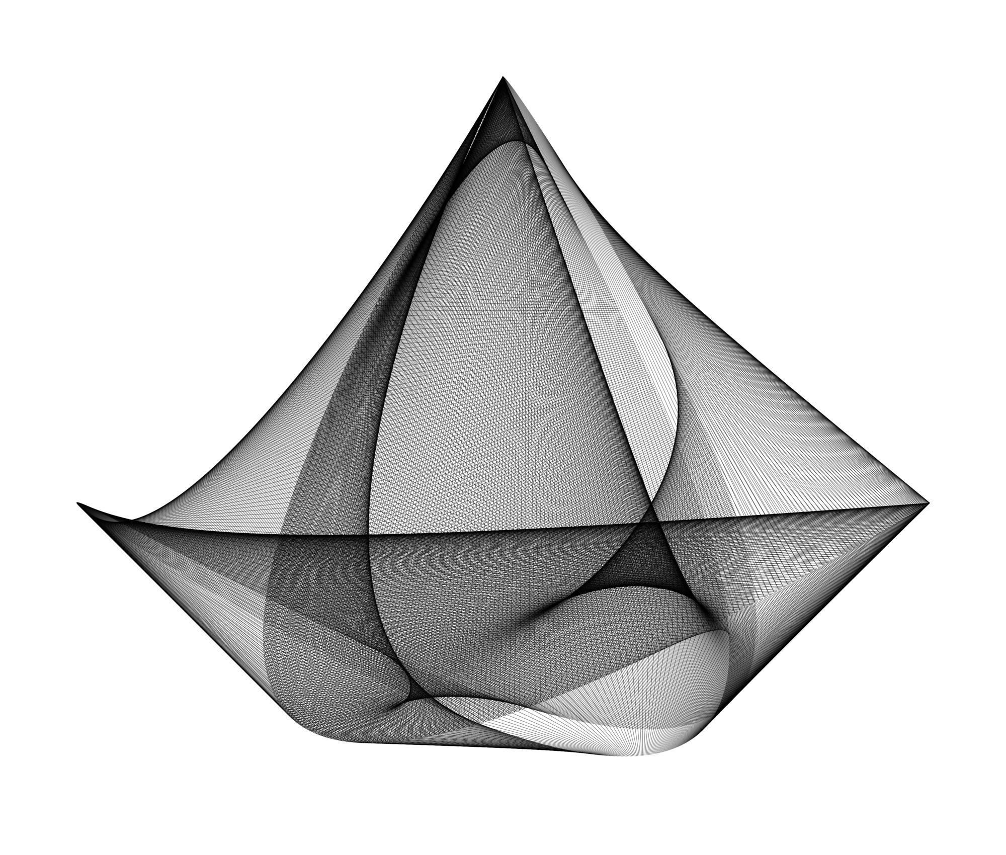 This figure is like a sailing boat. It shows 2,000 line segments. For each k = 1 , 2 , 3 , . . . , 2000 {\displaystyle k=1,2,3,...,2000} the endpoints of the k {\displaystyle k} -th line segment are: ( cos ⁡ ( 6 π k 2000 ) − i cos ⁡ ( 12 π k 2000 ) ) e 3 π i 4 {\displaystyle \left(\cos \left({\frac {6\pi k}{2000 \right)-i\cos \left({\frac {12\pi k}{2000 \right)\right)e^{\frac {3\pi i}{4 } and ( sin ⁡ ( ( 4 π k 2000 ) + ( π 8 ) ) + i sin ⁡ ( ( 2 π k 2000 ) + ( π 3 ) ) ) e 3 π i 4 {\displaystyle \left(\sin \left(\left({\frac {4\pi k}{2000 \right)+\left({\frac {\pi }{8 \right)\right)+i\sin \left(\left({\frac {2\pi k}{2000 \right)+\left({\frac {\pi }{3 \right)\right)\right)e^{\frac {3\pi i}{4 } .